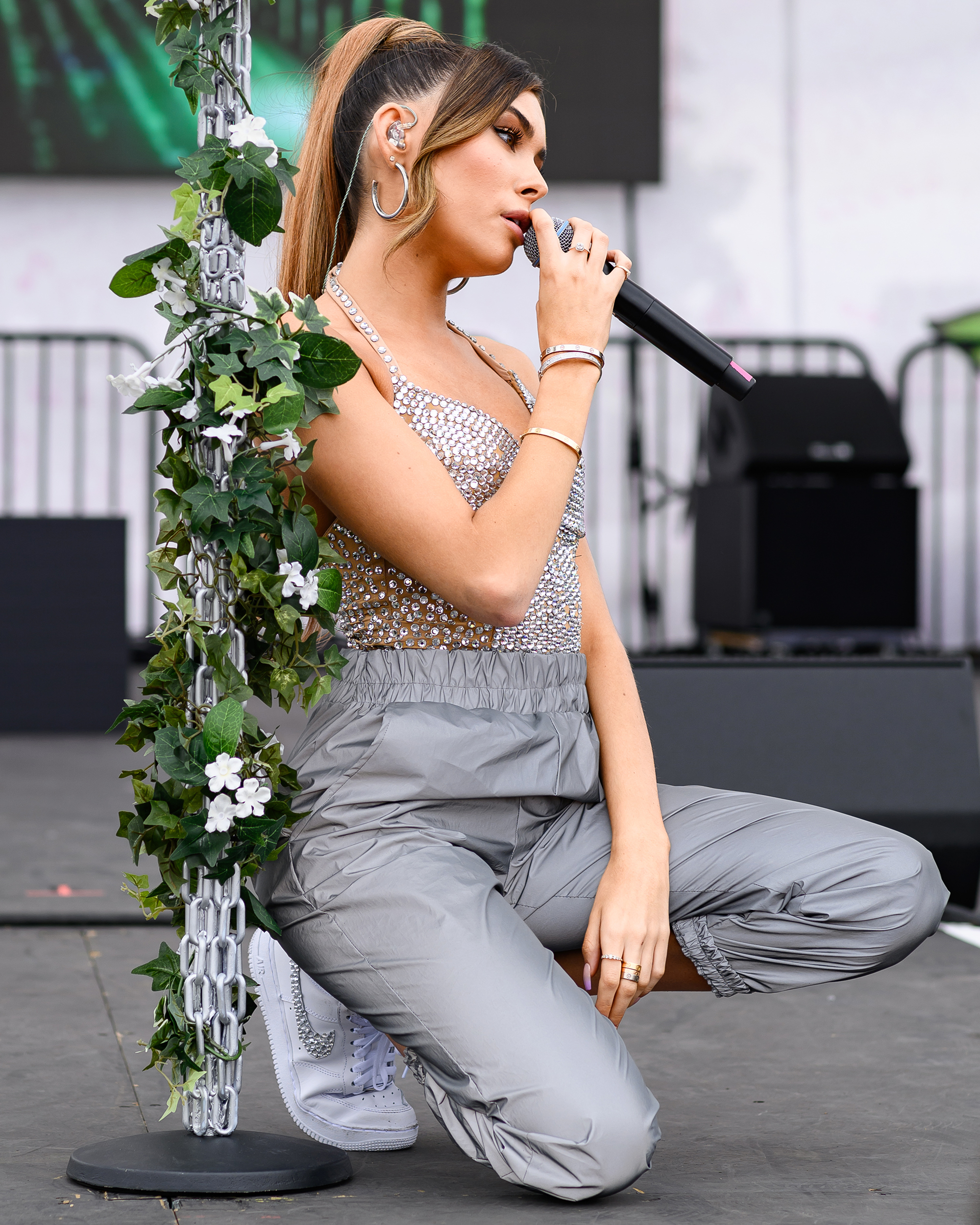 Madison Beer performing live at the Wango Tango Village in Dignity Health Sports Park in Carson, California, on Saturday, June 1, 2019.